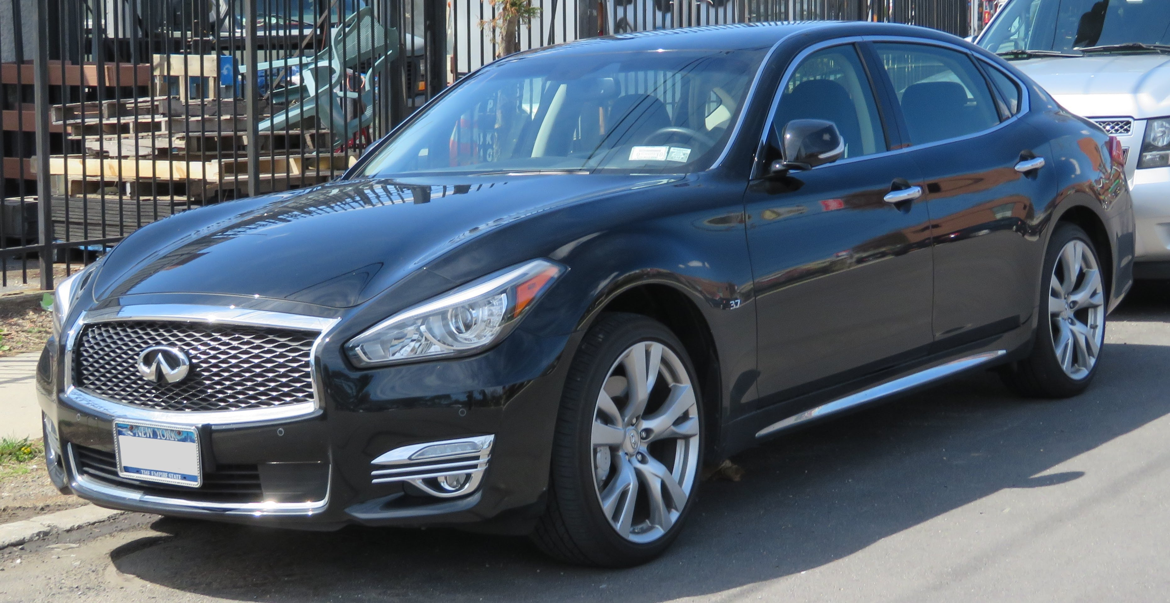 Around a Hyundai Repair Station, in Queens, New York